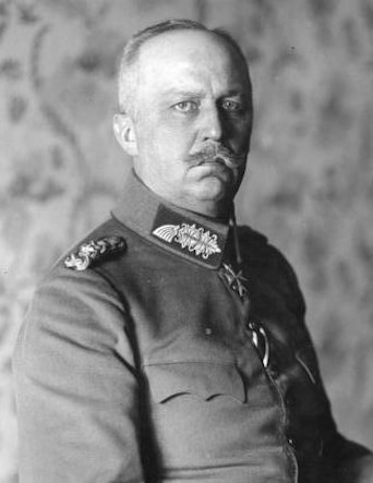 Cropped photograph of German general, Erich Ludendorff